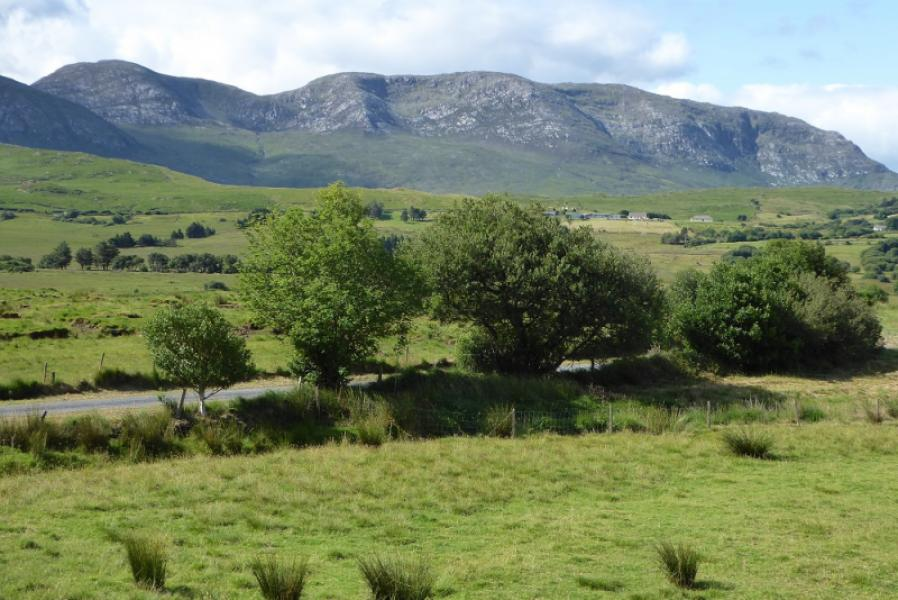 Mullach Glas (left) & Binn Mhor (right) from the North, Maumturks, Connemara, Ireland